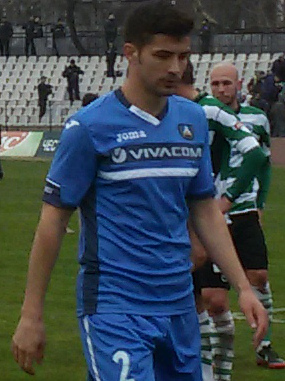 Romanian footballer Srdjan Luchin